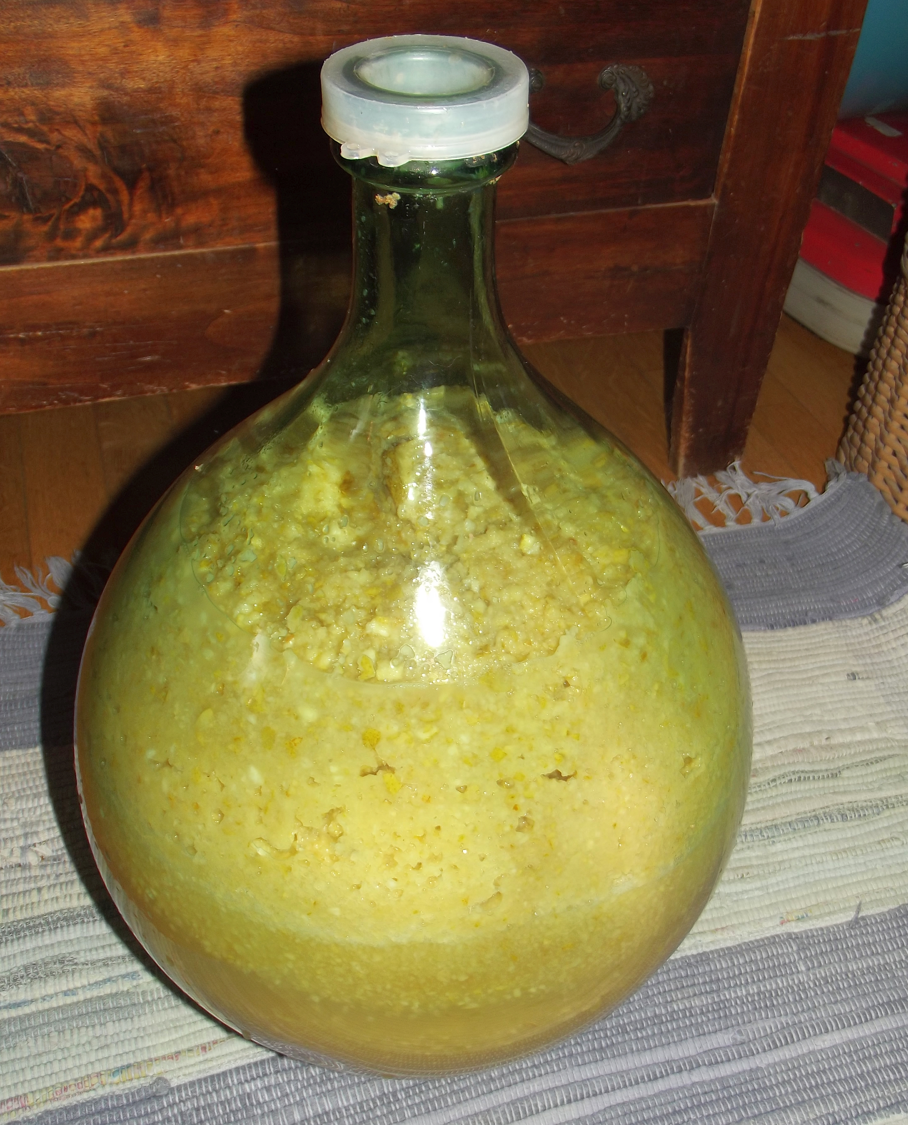 Home-made perry fermentation in a carboy